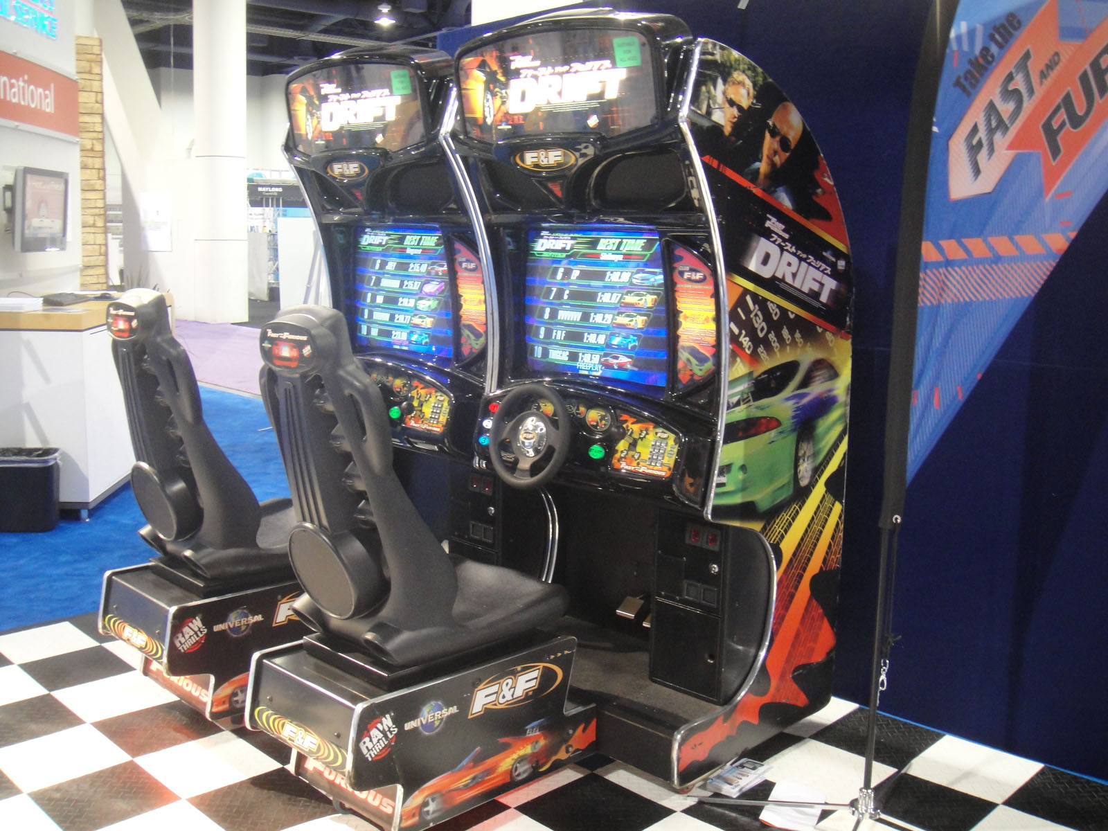 photo 2012 Pop Culture Geek taken by Doug Kline If you're interested in higher resolution versions of my images, contact me via my profile page.